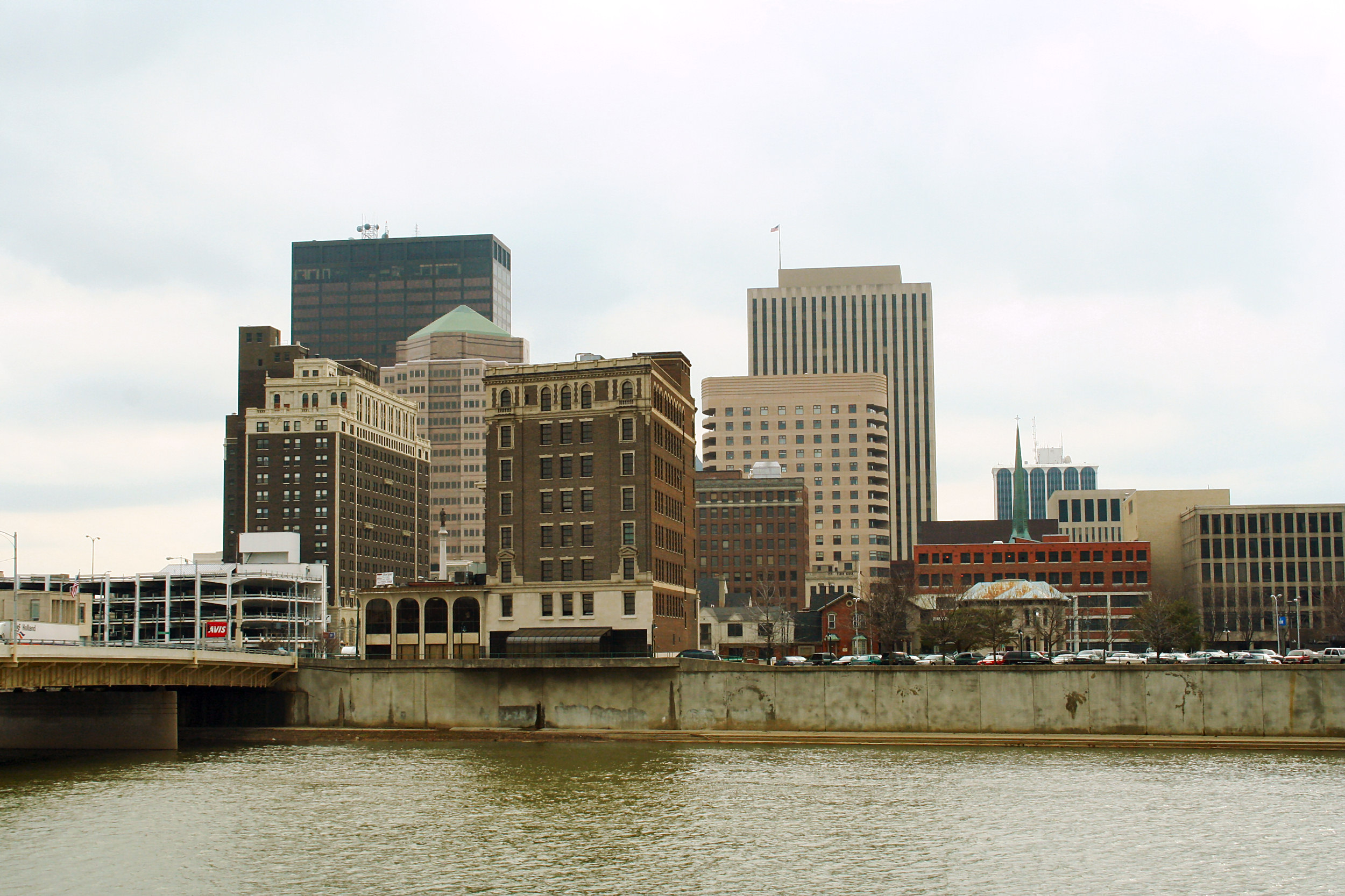 Skyline of Dayton, Ohio.